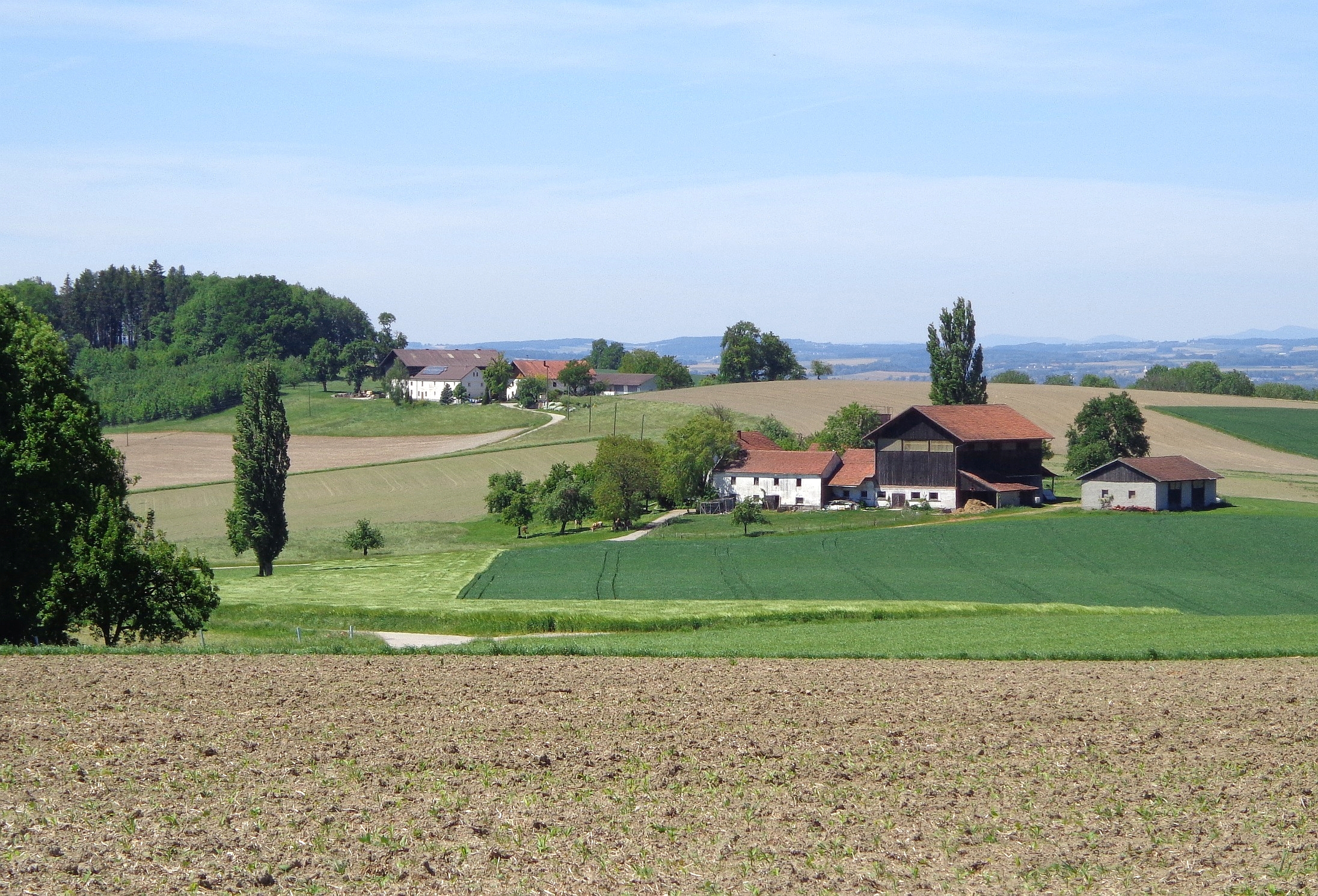 The village of Unterfucking (Gemeinde St Marienkirchen bei Schärding) with the Oberrader farm (left) and the Niederrader farm (right)